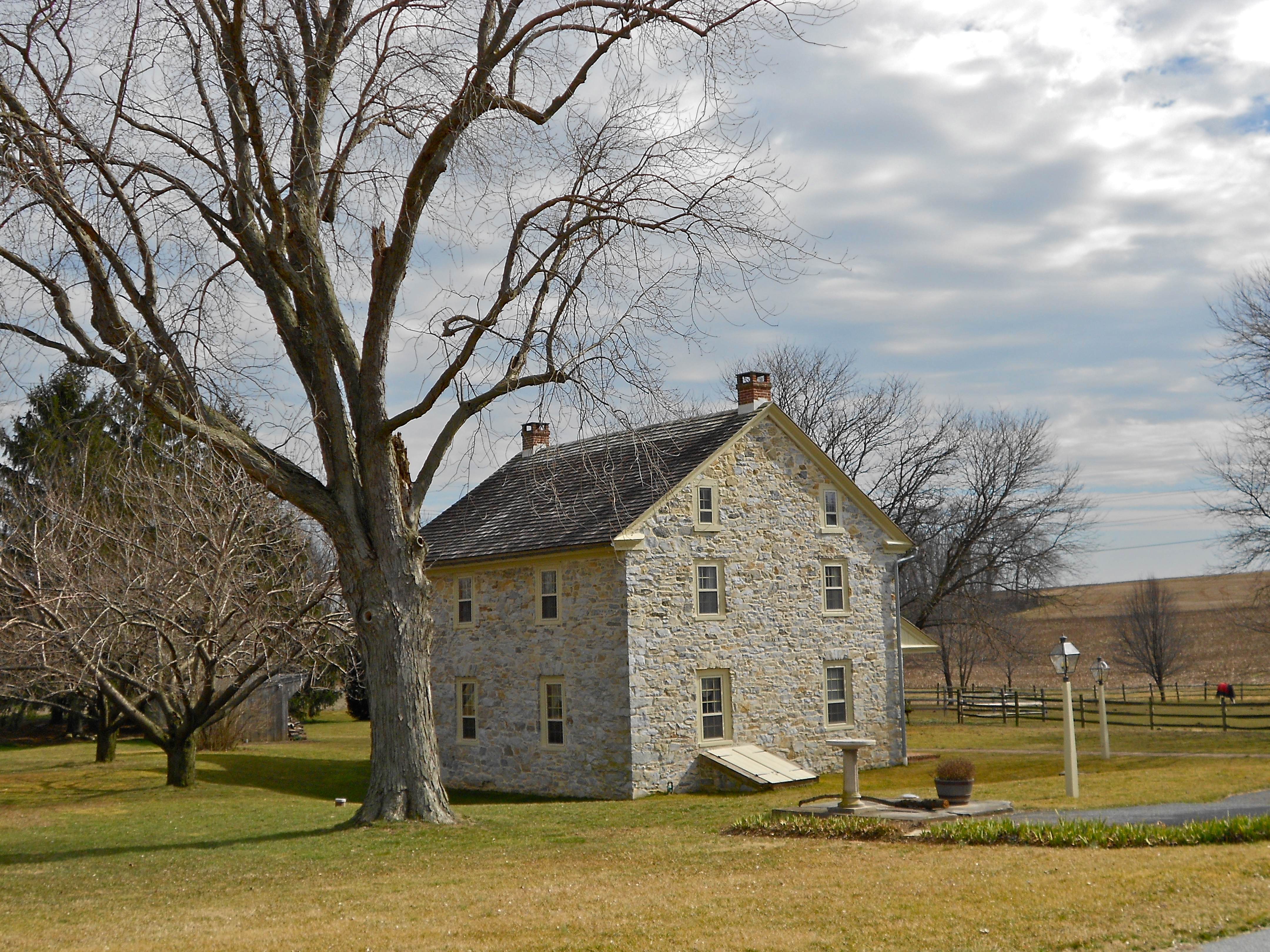 Byers-Muma House on the NRHP since February 22, 2002. At 1402 Trout Run Road, East Donegal Township, Lancaster, Pennsylvania. Very nice old house, seemingly in the middle of nowhere. Another NRHP site down the road.